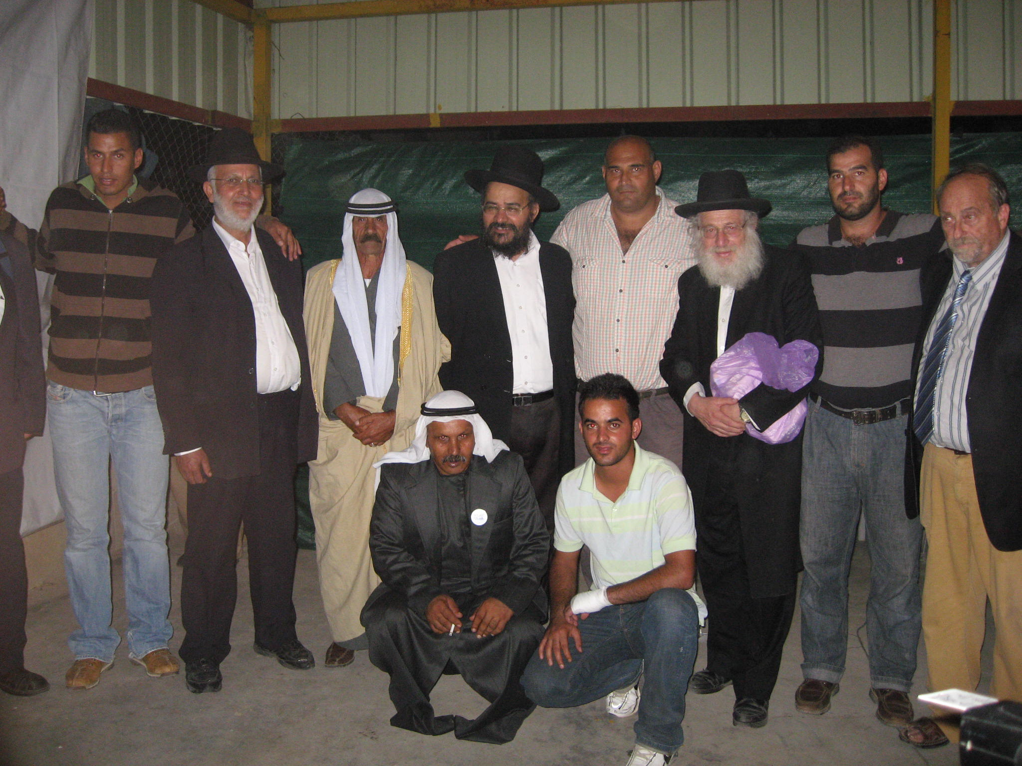 This photo was taken the gathering with the members of the Bedouin Al-Huzeil tribe which claims Jewish descent and Jewish Sanhedrin members in Rahat. In the picture, the indviduals standing from left to right, are as follows: (1) Mundir Al-Huzeil – an IDF soldier. His story: During the incidence of the kidnapping of Gilad Shalit, Mundir prevented the kidnapping of more israeli soldiers by shooting at the kidnappers together with another Bedouin soldier. (2) Suleiman Al-Huzeil: A Bedouin Judge (by the Laws of the Torah). His story: A Jews from Tunis and and a Jew from Iraq came to me, a bedouin Jew whose family has lived here for hundreds of years and told me, "You are actually Jewish". (4) Rabbi Tsvi Idan – The founder of the Sanhedrin (5) Yousef Al-Huzeil (6) Rabbi Yoel Shwartz – The head of the Sanhedrin court and a renowned expert on the subject of the Sons of Noah – the Noahids. (7) Iyad Al-Huzeil (8) Me The individuals sitting from left to right are as follows: (1) Sheikh Salem Al-Huzeil – The head of the “our state” movement, who initiated the gathering. (2) An Al-Huzeil soldier from the Israeli Air force.